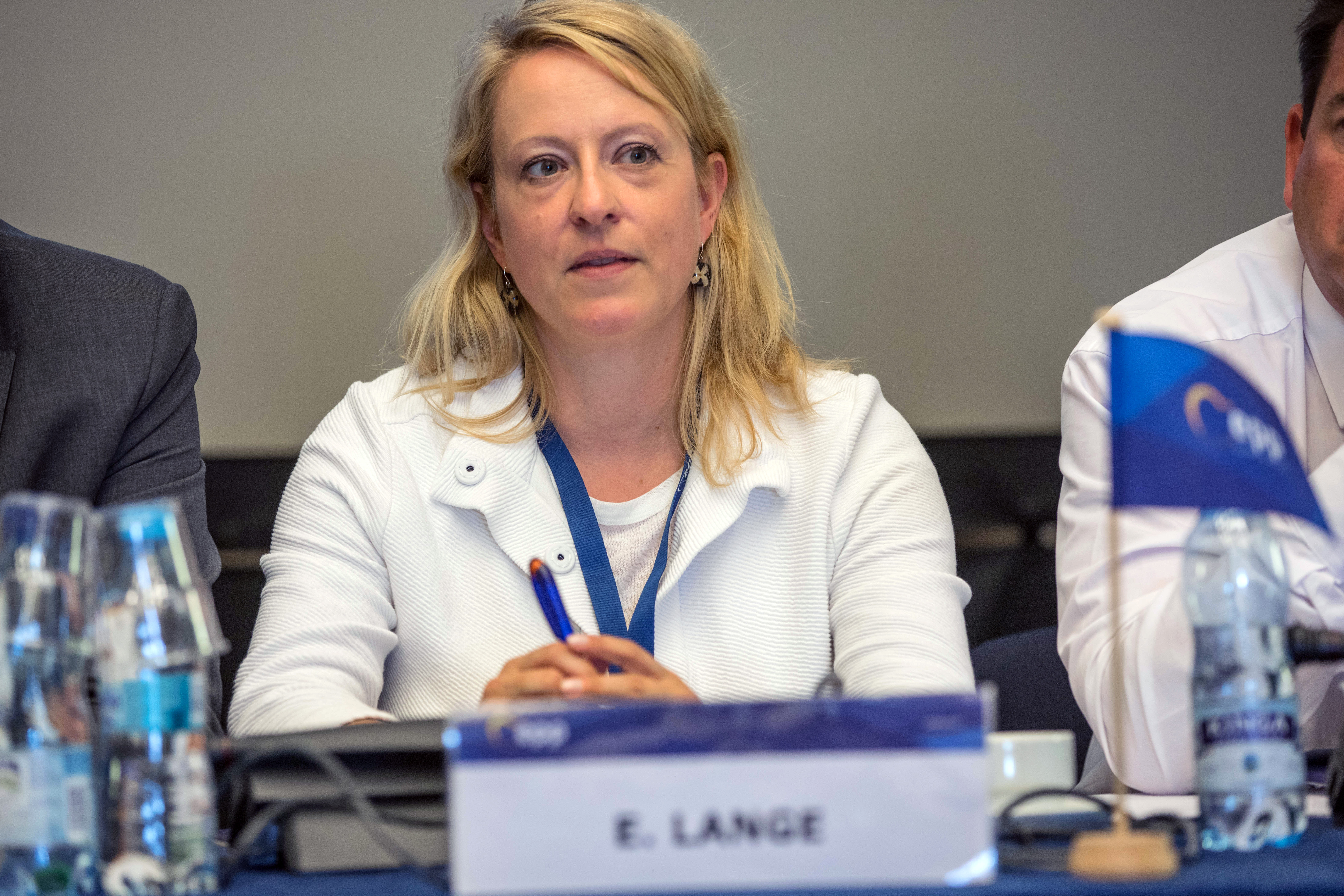 EPP Political Assembly, 4 June 2018